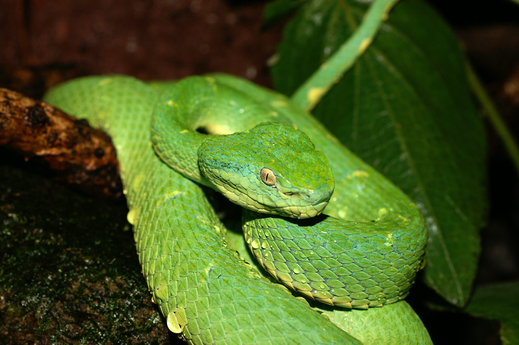 Striped palm pitviper